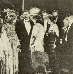 Still from the American film I Am Guilty (1921) with (at center) Joseph Kilgour Louise Glaum, on page 1 of the March 24, 1921 Film Daily.